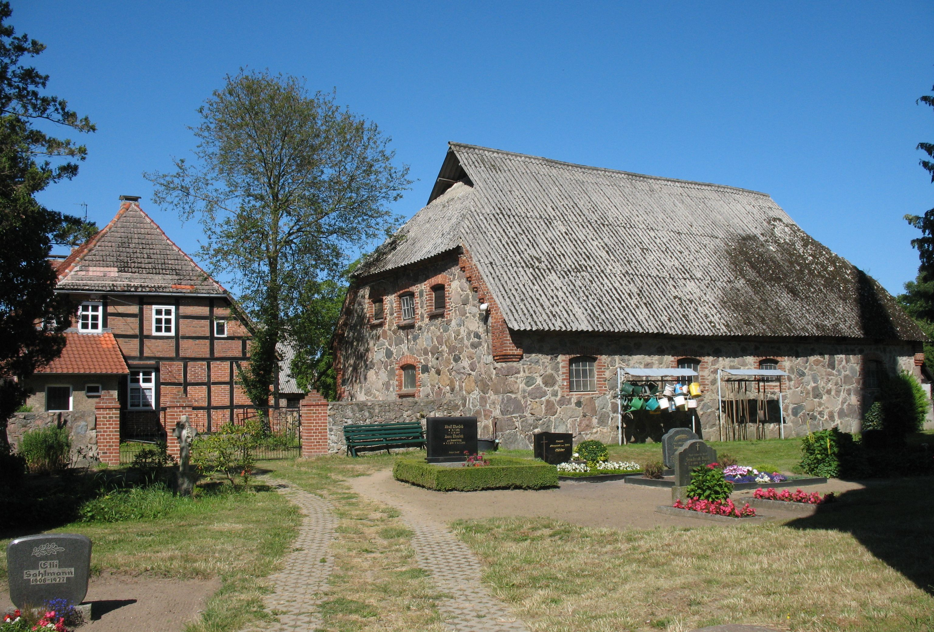 Rectory in Suckow in Mecklenburg-Western Pomerania, Germany